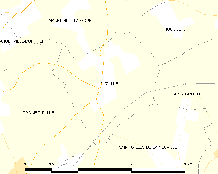 Map of French municipality Virville